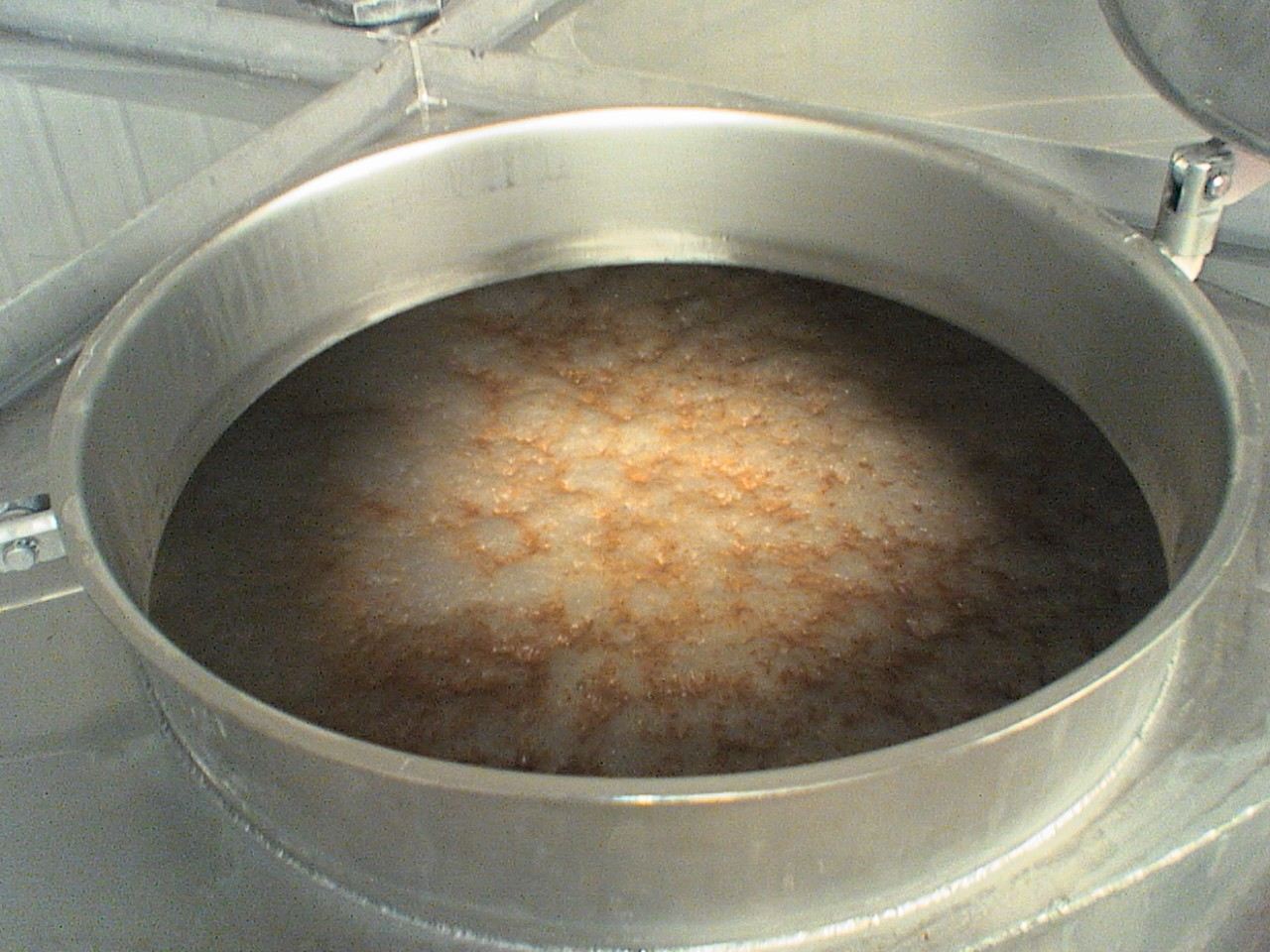 Inside a fermenting tank. Photo taken by uploader at Wye Valley Brewery on a tour.